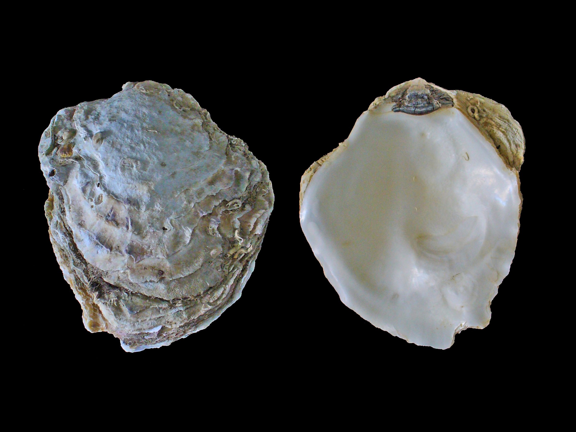 Ostrea edulis, Ostreidae, European flat oyster; Etang de Leucate, Roussillon, France; collected 2007-08-08. The inner, calcareous part of the shell is used in homeopathy as remedy: Calcium carbonicum Hahnemanni (Calc.)